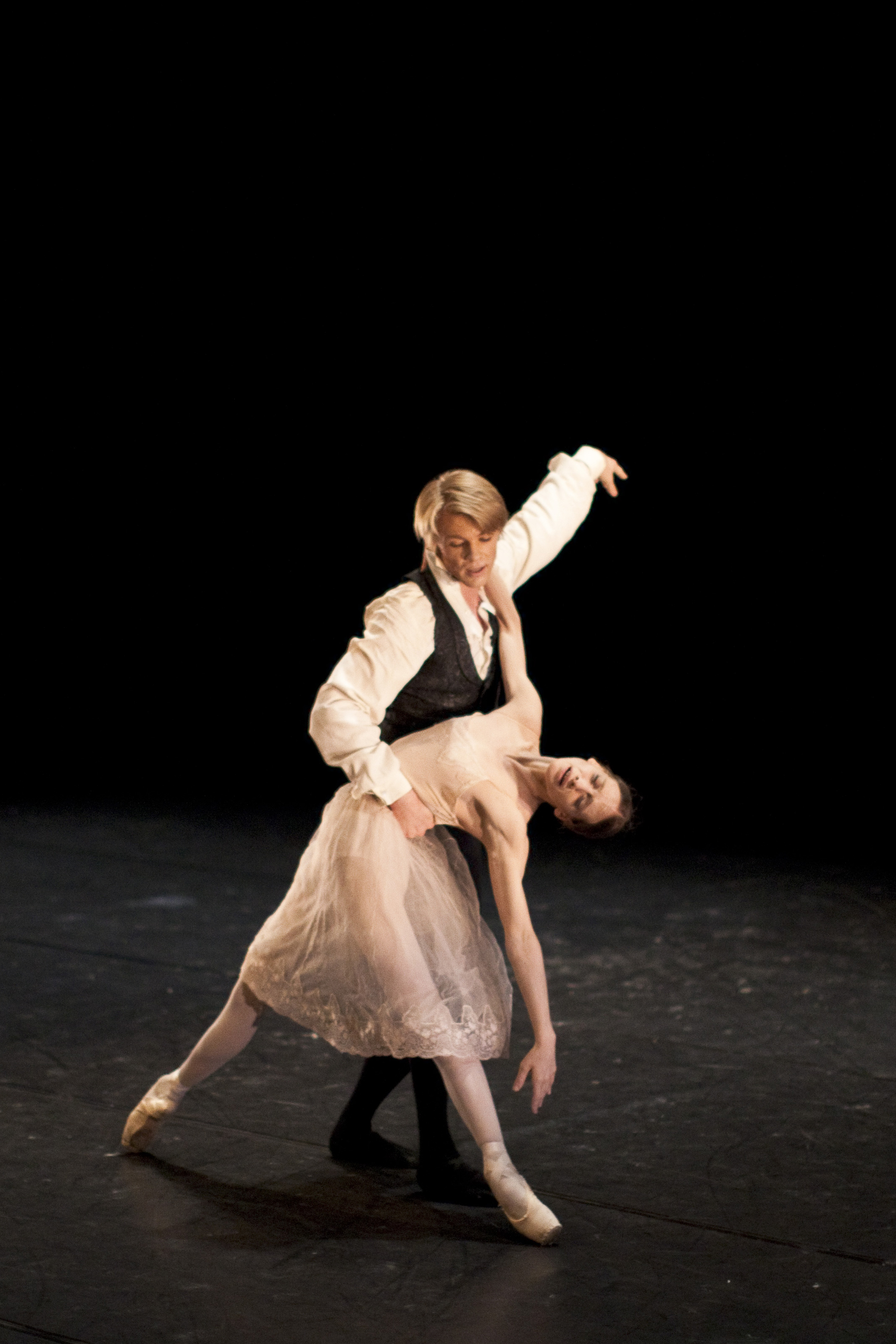 Alicia Amatriain & Marijn Rademaker: "Kamelien dama" / "La dama de las camelias". Egilea/Autor: Gorka Bravo